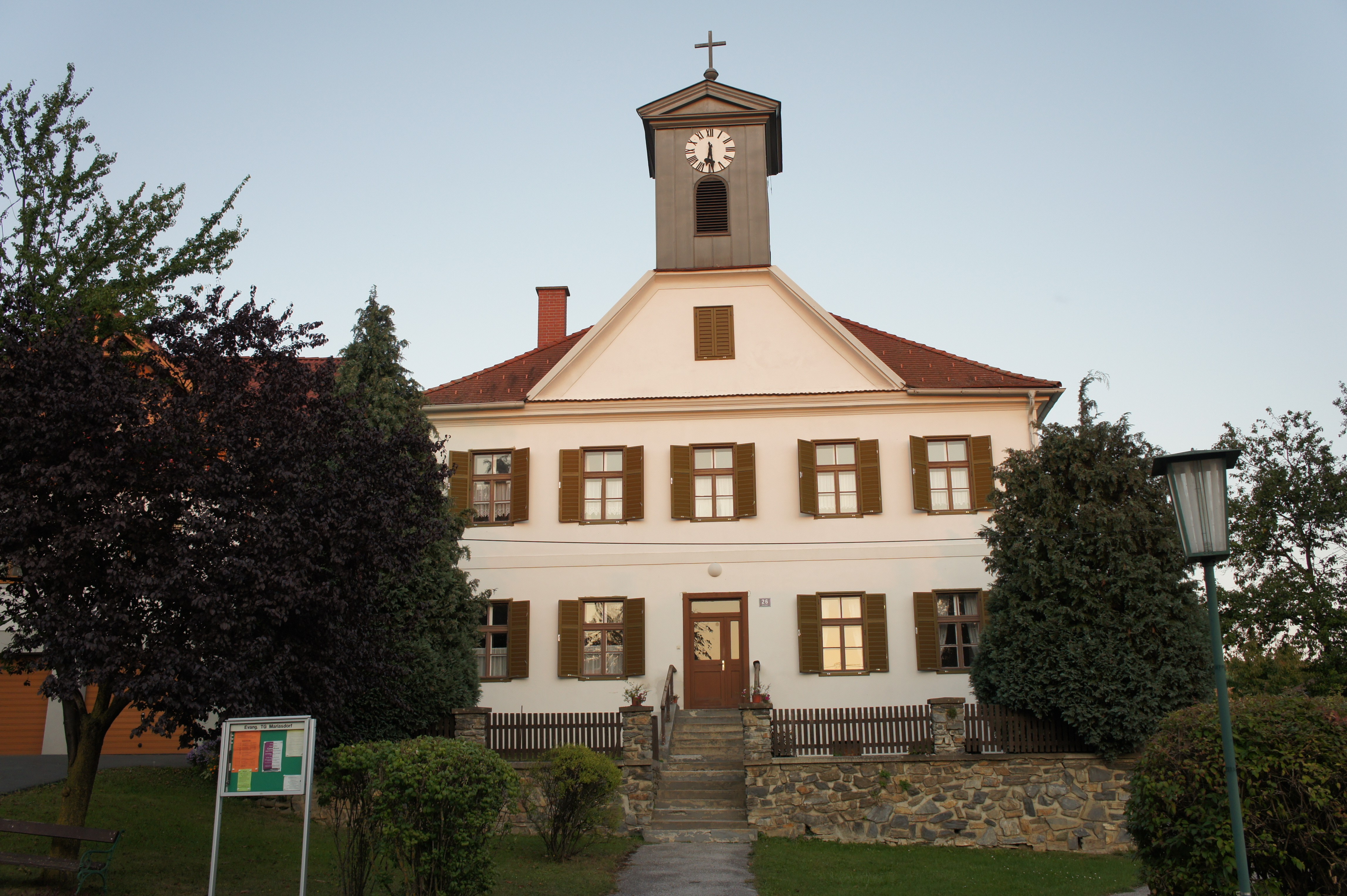 Evangelic school and praying centre, Mariasdorf, Austria